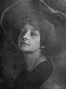 Portrait der Thea Schleusner